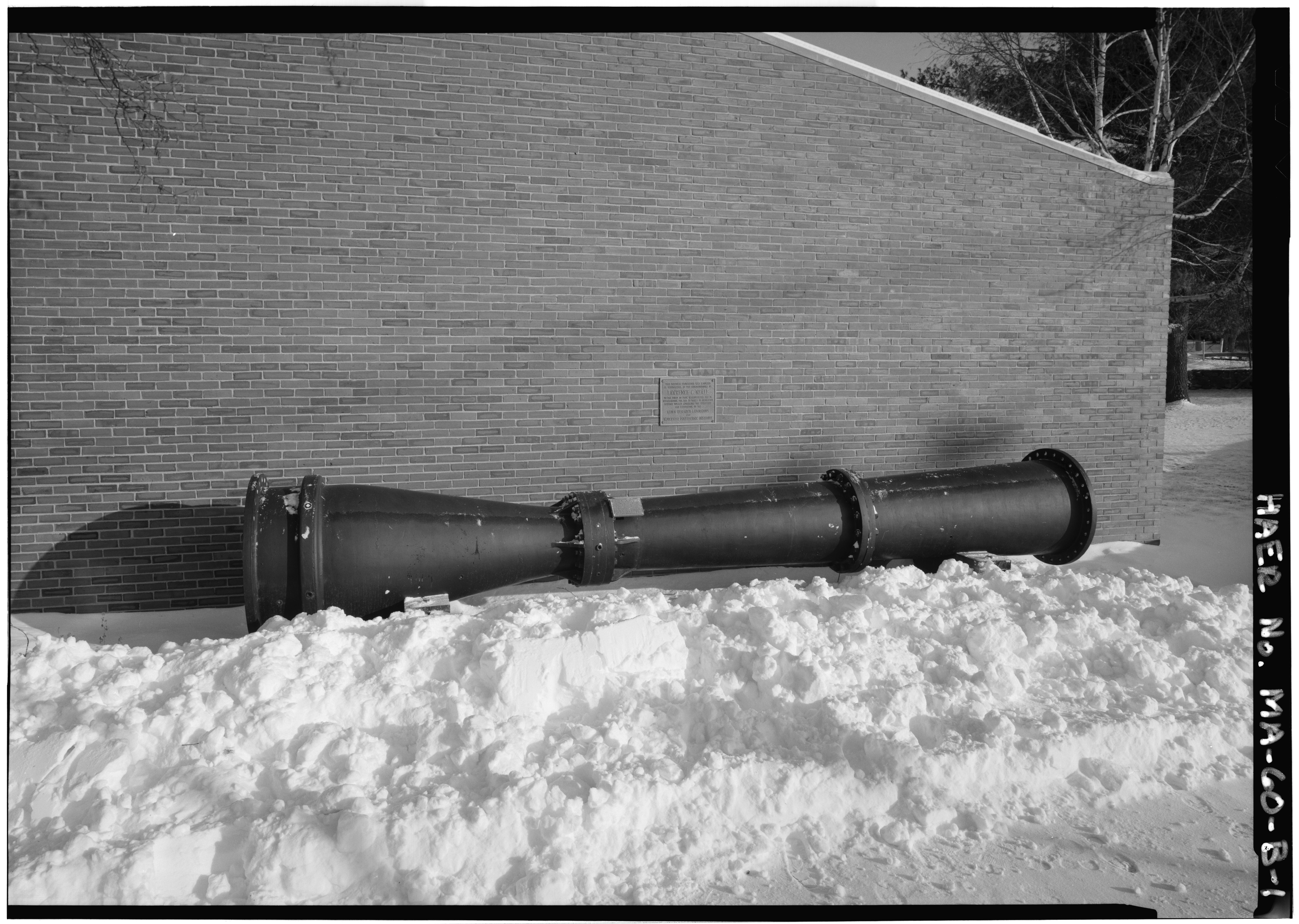 Venturi meter at the Alden Research Laboratory, Holden, Massachusetts, USA. This is a historic 36" by 16" Herschel Venturi flow meter from the 1893 Chicago Columbian Exposition, with plaque in recognition of the contribution of Lawrence C. Neale to the field of flow measurement. Photograph taken in January 1985.